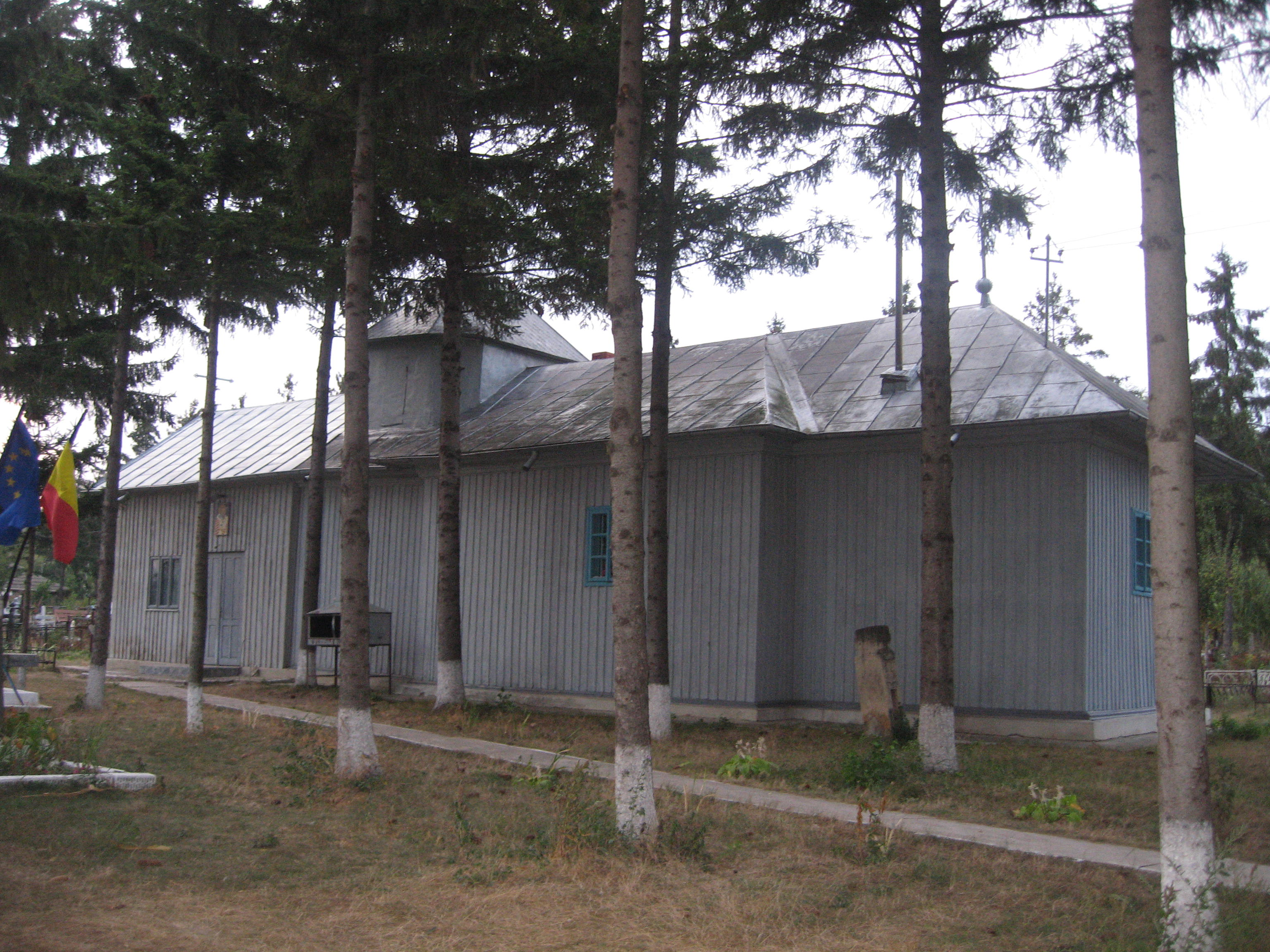 Biserica de lemn din Mădârjeşti